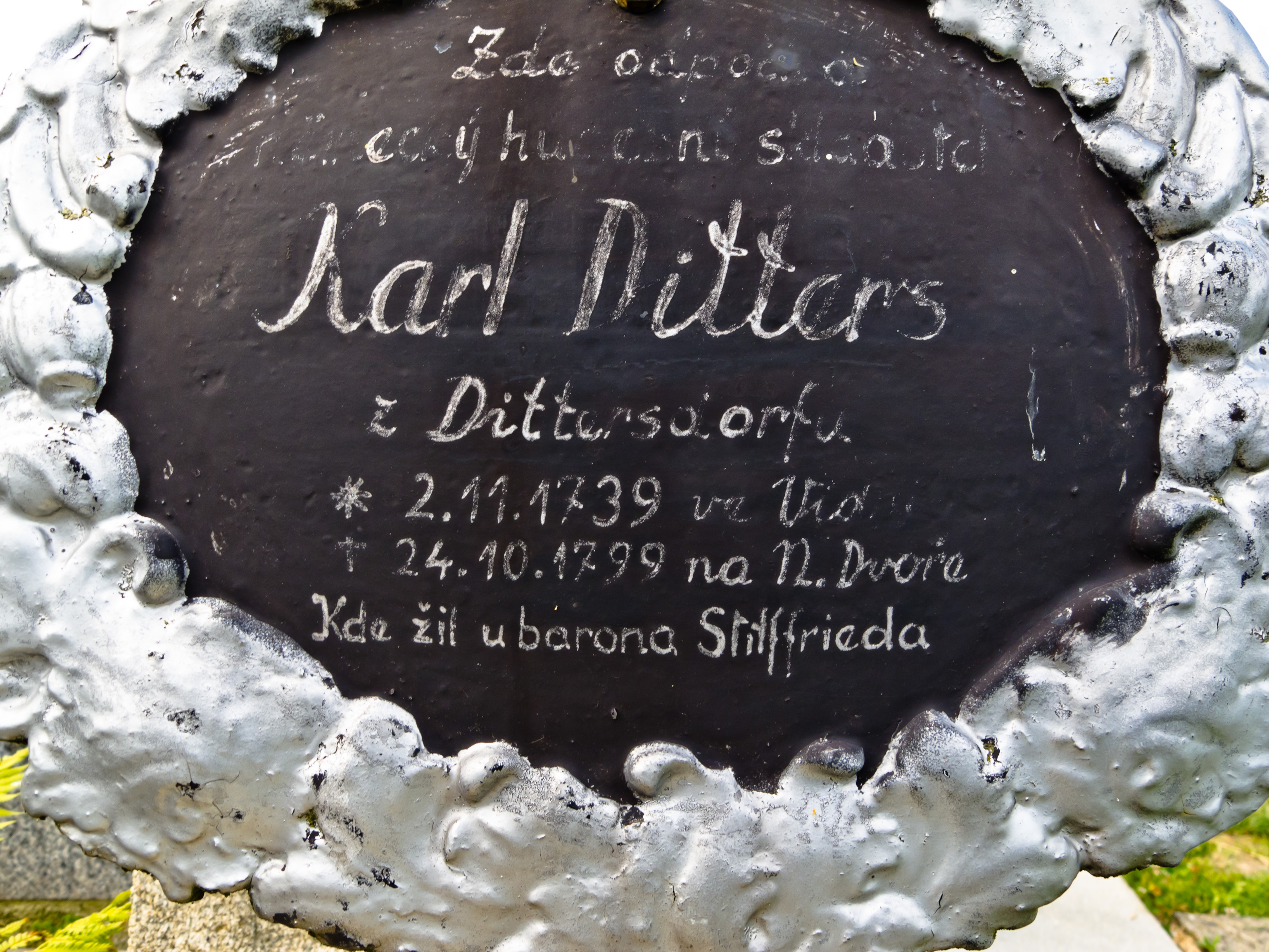 Ditters von Dittersdorf - tomb in Destna Text: "Here rests german composer Karl Ditters von Dittersdorf. 2.11.1739 in Wien, 24.10.1799 in Neuhof, where he lived at baron Stillfried.